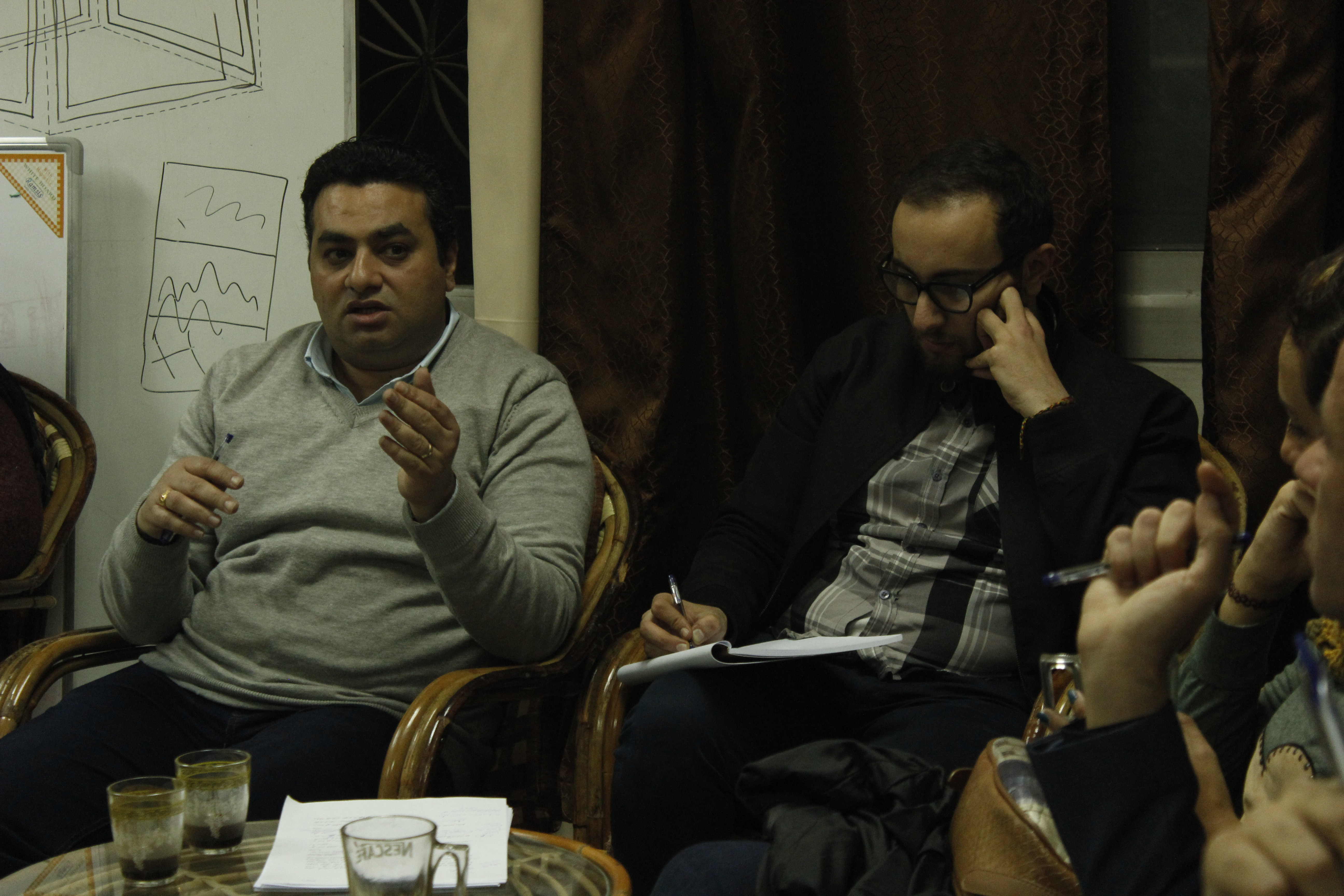 Sameh samy